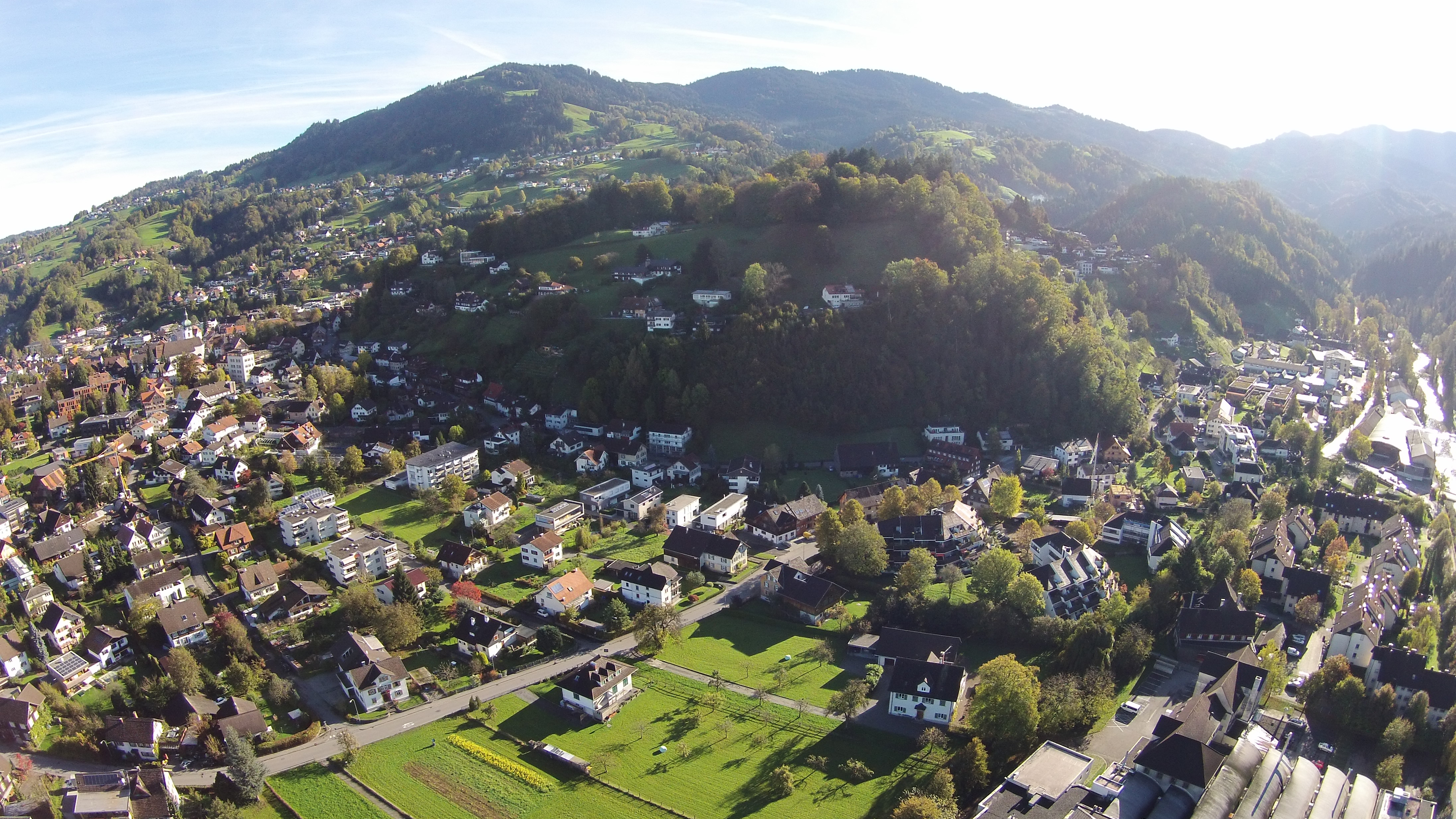 Zanzenberg, Dornbirn, Vorarlberg. View from the west. In the background the Schwende and Boedele / Hochaelpele.